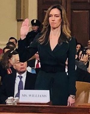 Jennifer Williams and Alexander Vindman taking the oath during the impeachment inquiry of Donald J. Trump